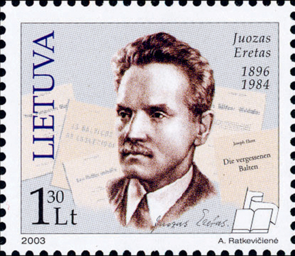 Stamps of Lithuania, 2003